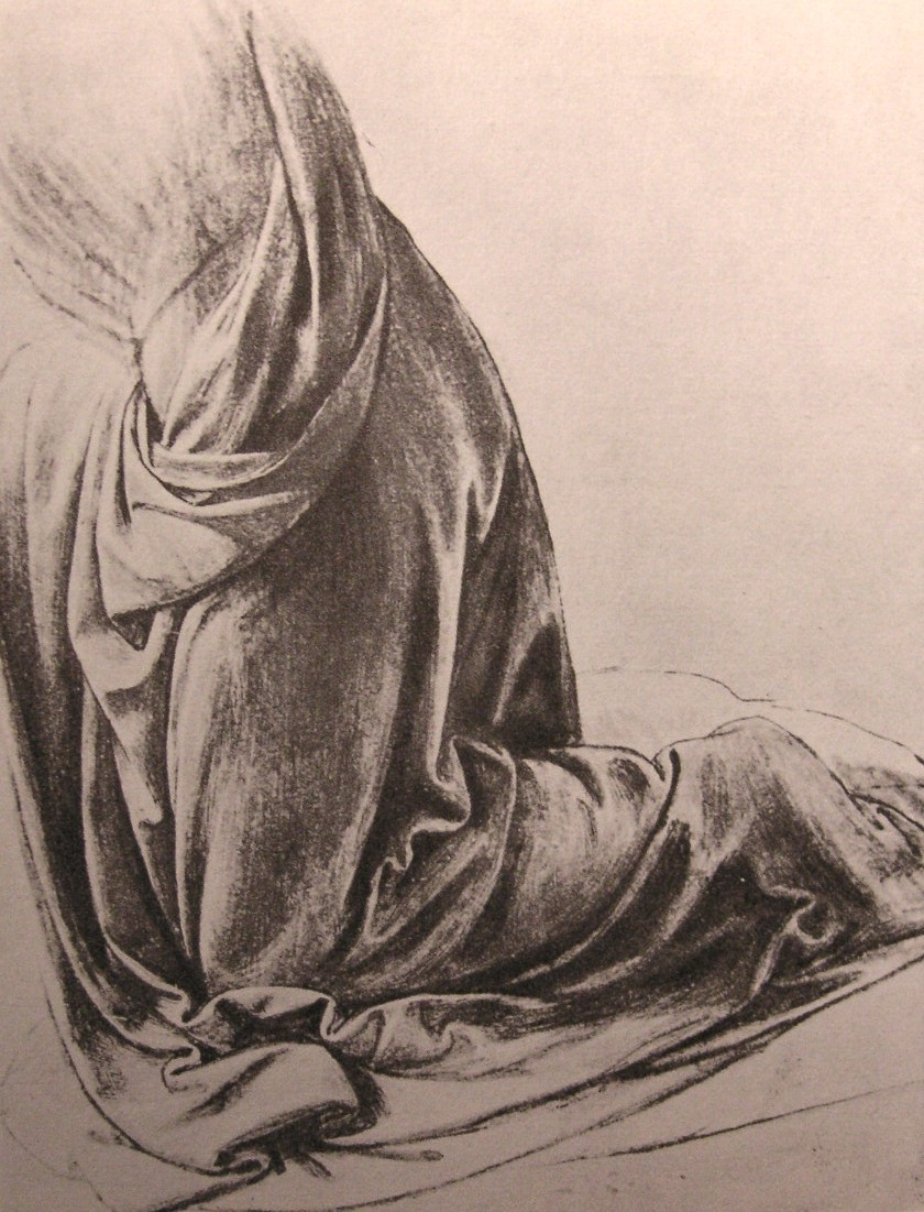 Leonardo da Vinci, Drawing of drapery